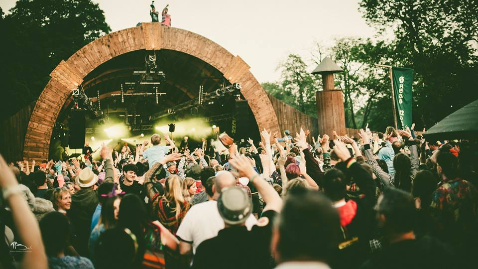 one of the festivals 13 stages